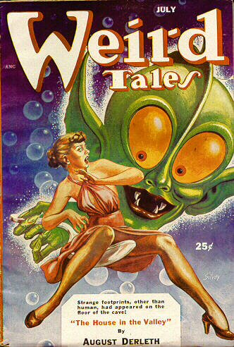 Cover of the pulp magazine Weird Tales (July 1953, volume 45, number 3). Cover art by W. H. Silvey.